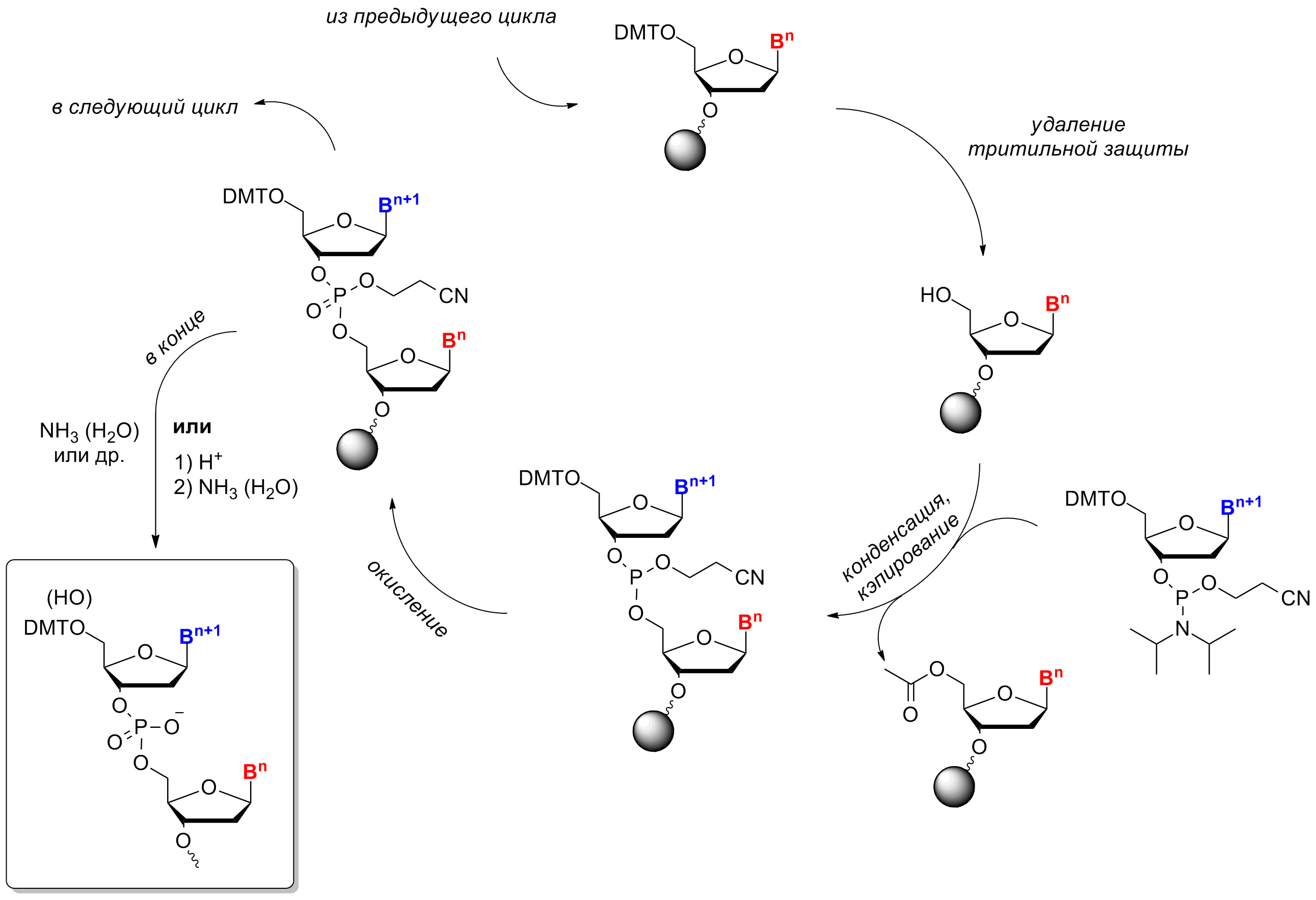 Phosphoramite Oligonucleotide Synthesis